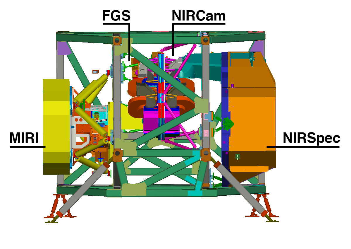 Schematic block of ISIM Module; the four instruments are highlighted